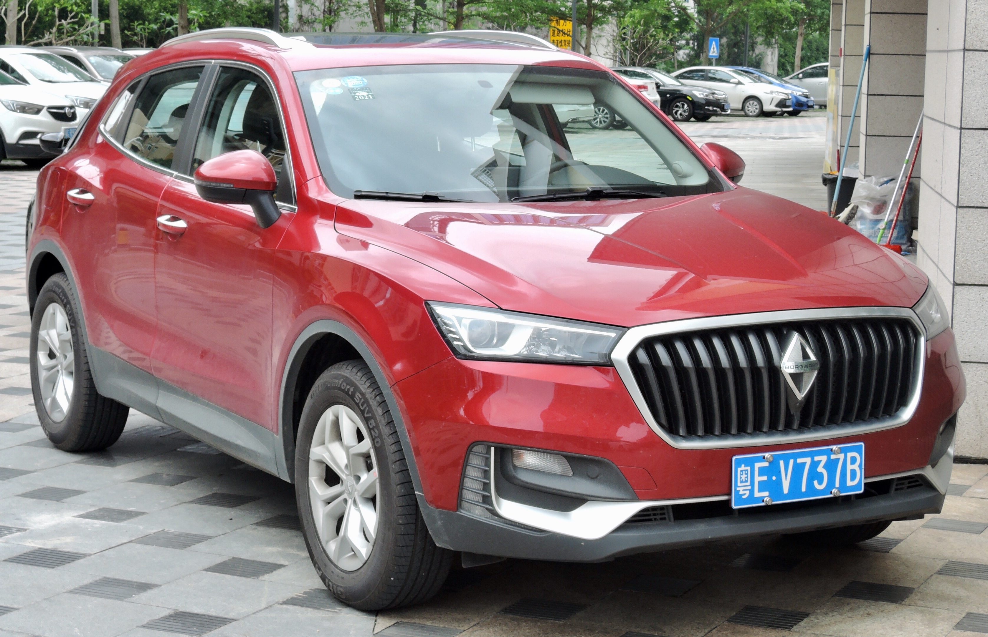 A red Borgward BX5 in Zhuhai, Guangdong province, China. 中文（中国大陆）: 一辆红色的宝沃BX5，摄于中国广东省珠海市。